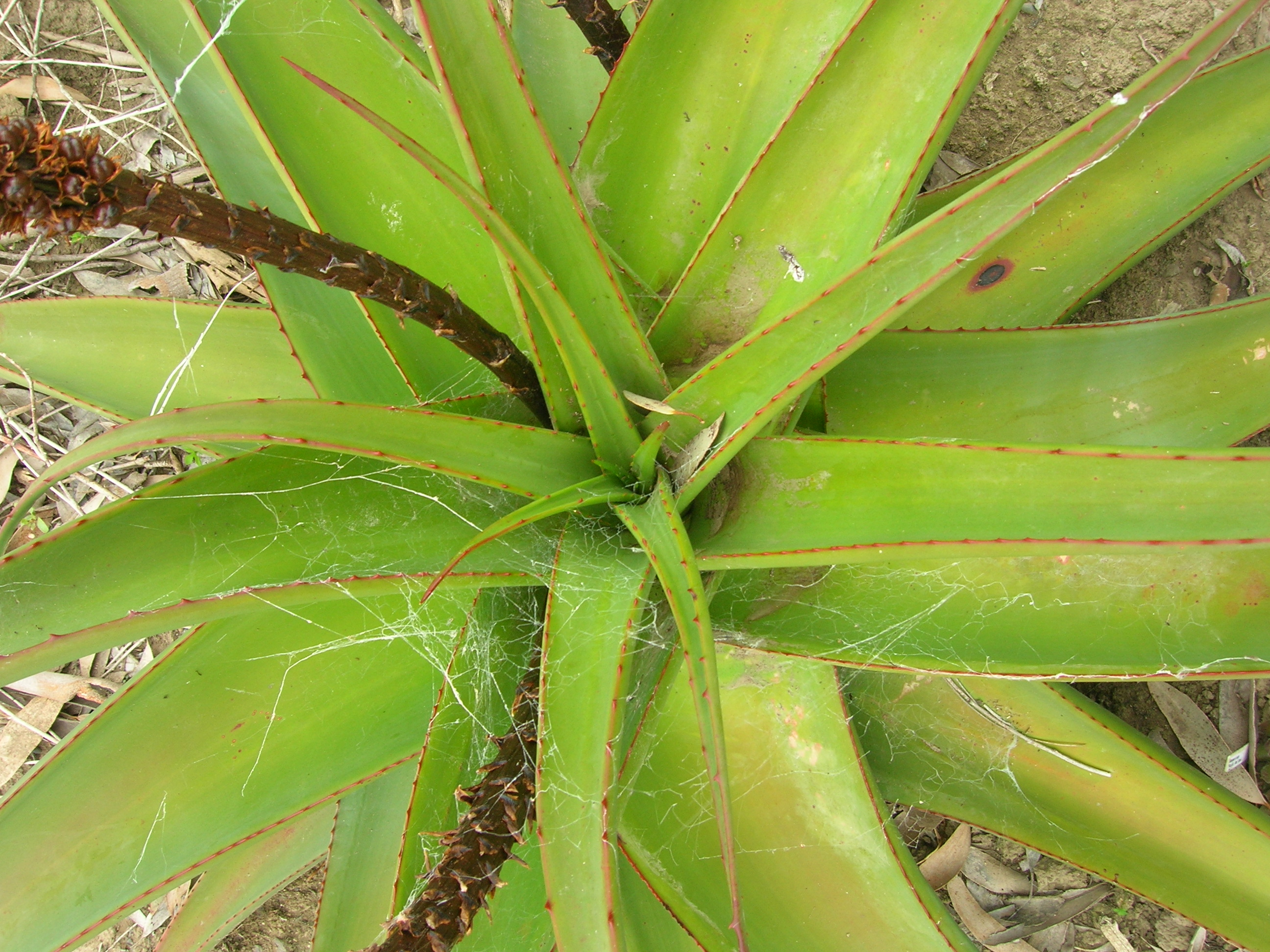 Aloe Alooides Asphodelaceae P02 3679 Also see Paloma Gardens, Cliive & Nicki Higgie, Fordell, Wanganui, North Island, New Zealand Northwest Horticulture Society November, 2005 tour i110405 125